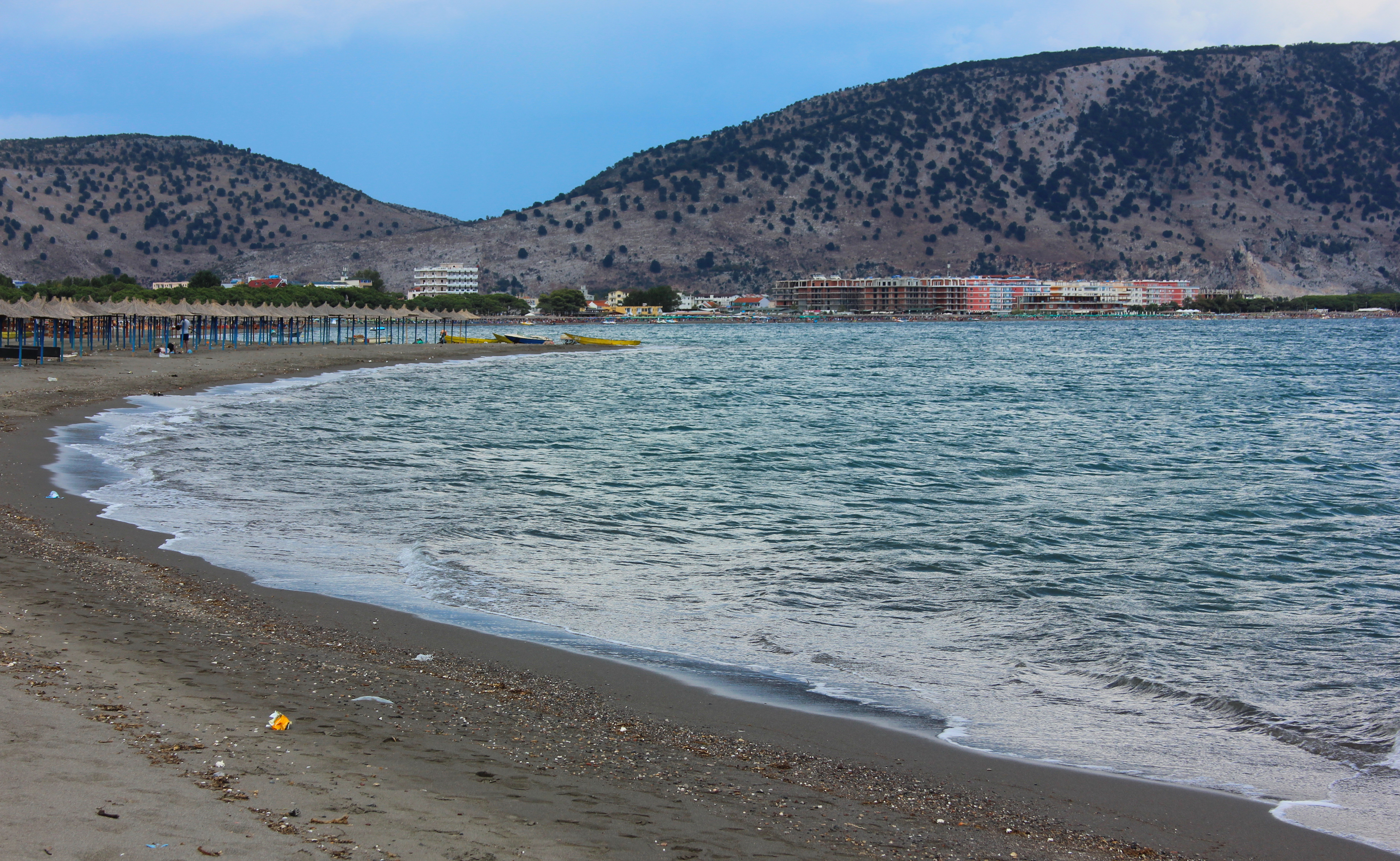 Ada Beach near Velipoja